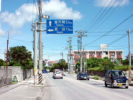 Minami-Uebaru Intersection